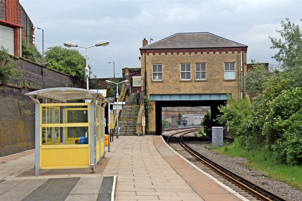 Station building, Bank Hall Railway Station